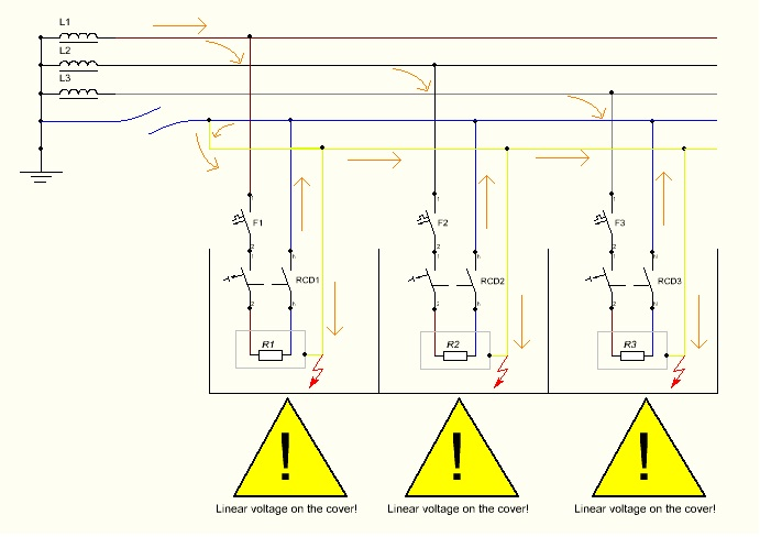 Lack of TN-C-S system. As a matter of fact, it is the same TN-C system, but modified little, cause joining is made somewhere near consumer. Where is the dodge? -As the rule, it is quite expensive for energy companies to stretch separately PE wire from substation to the buildings (TN-S), so they combine PE and zero to one wire named "PEN-conductor" till buildings. As the result, energy companies accuse fault to others, who damages the cable. This step exempts energy companies from responsibility legal and economical. But such wiring way is mechanically weak for works related to digging and danger for consumers. Using lack of knowledges about electricity in society, energy companies prove their innocence easy related to accidents using TN-C-S.